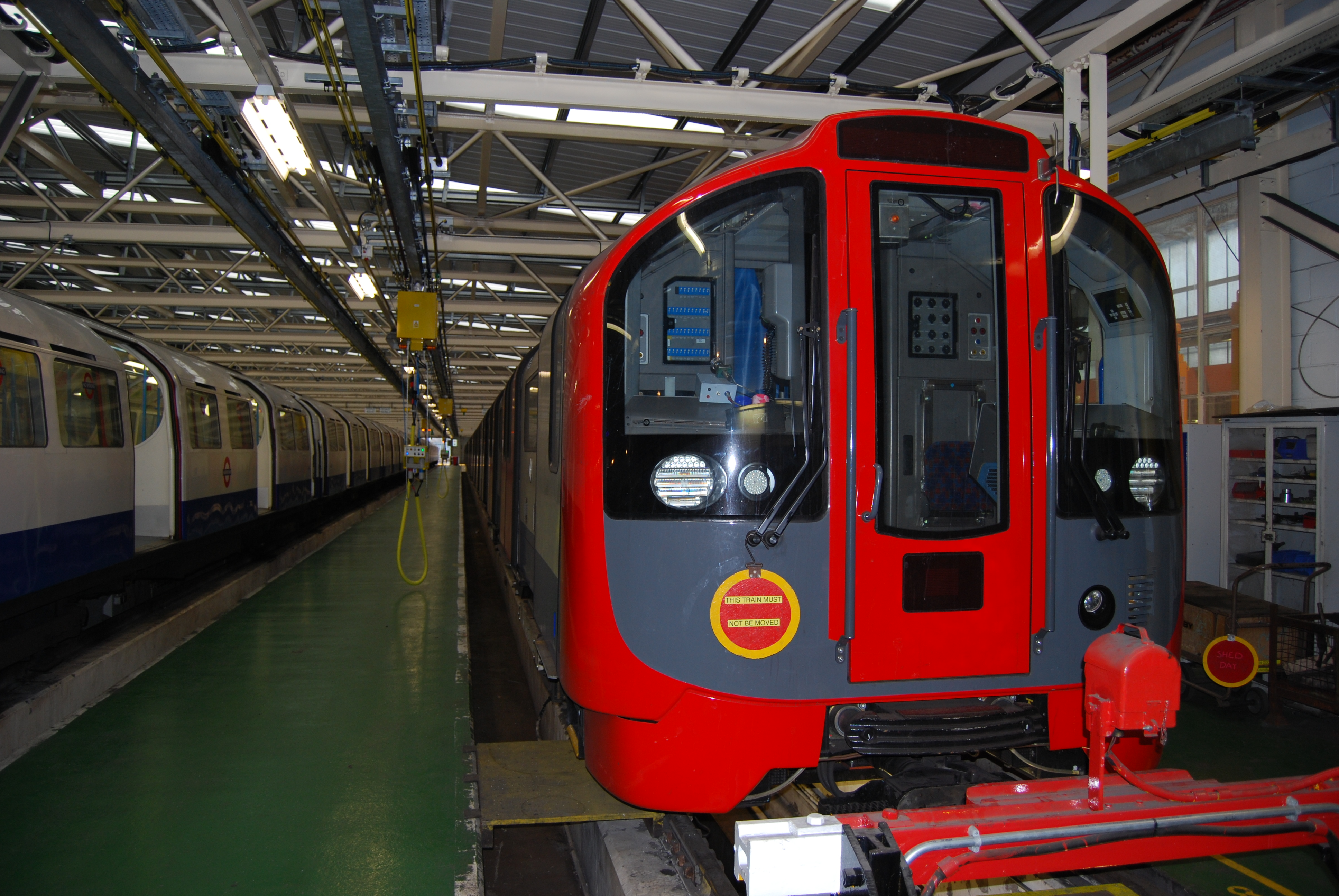 "Work has begun on the construction of 47 new London Underground trains to improve services on the Victoria Line. The fleet, which has eight carriages per train, marks the first phase of a £3.4bn investment to upgrade the line by private company Metronet. It says, as well as the trains, a new signalling system will mean a faster and more frequent service on the line. Metronet hopes to have two trains in service by early 2009 and the rest of the fleet will be delivered by 2011. Metronet claims trains will be capable of operating at a higher maximum speed, and with faster acceleration, enabling station-to-station times to be improved by up to 10%. The new fleet of trains - being built by Bombardier UK - will also be larger, with 43 trains available for peak service, compared with 37 at present. " Quote BBC News